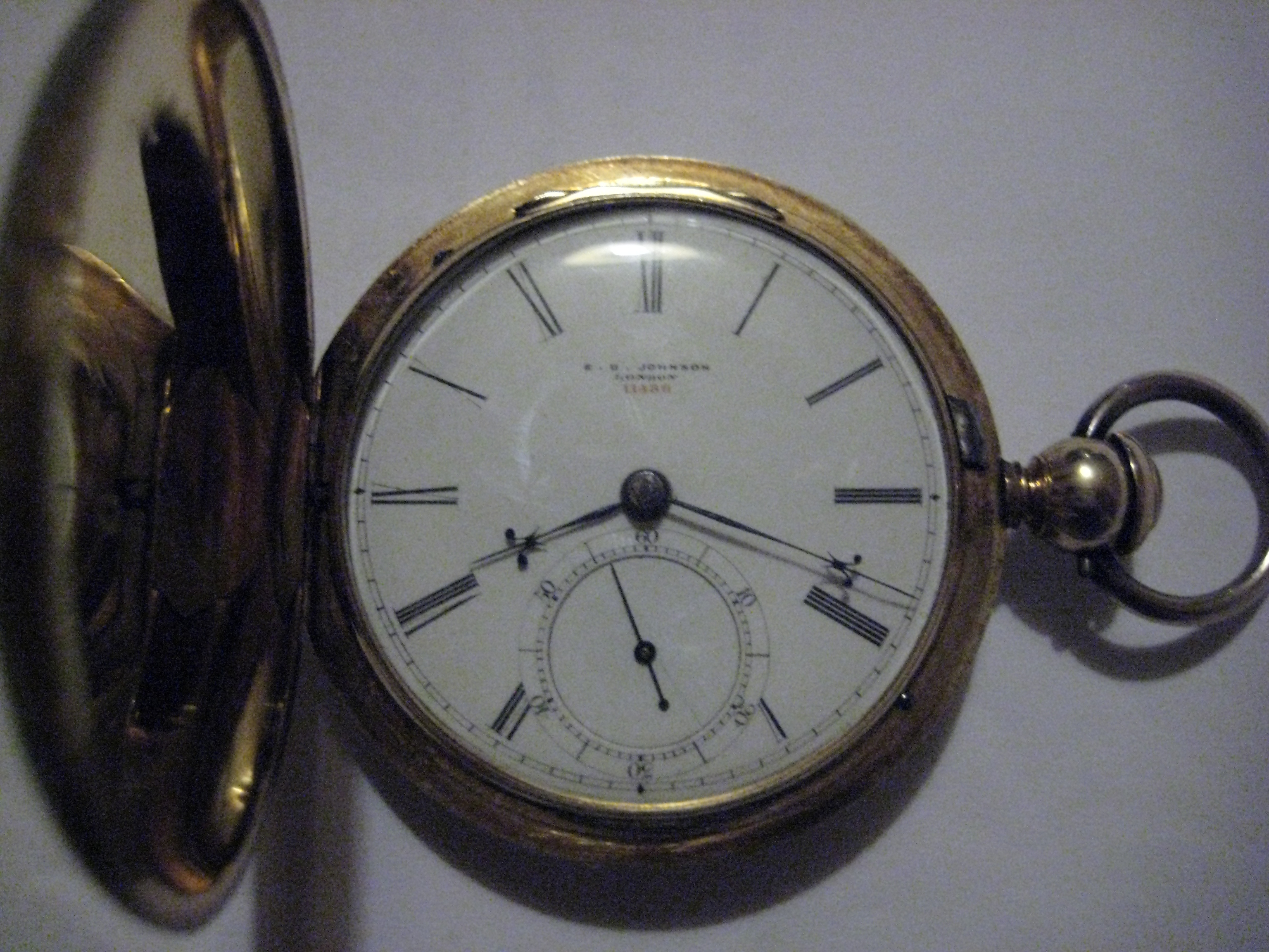 Gold pocket watch by Edward Daniel Johnson.